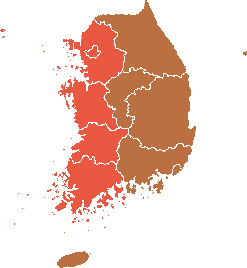 Result map of the 1967 South Korean elections, based on File:PESK2007 RESULT MAP.png. Province borders are reconstructed and may not be accurate.